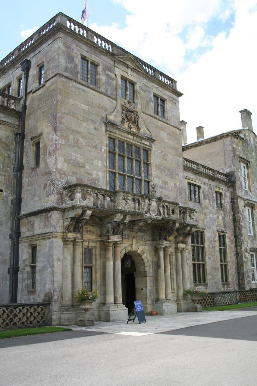 A photo of the building.